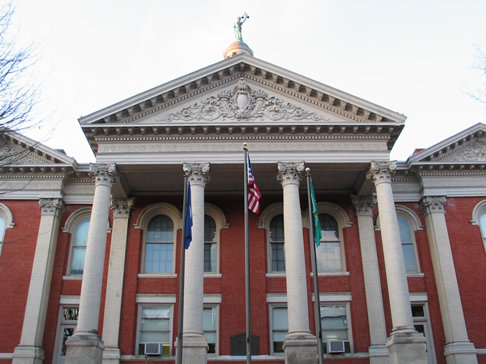 Augusta County Courthouse, at Staunton, Virginia, United States